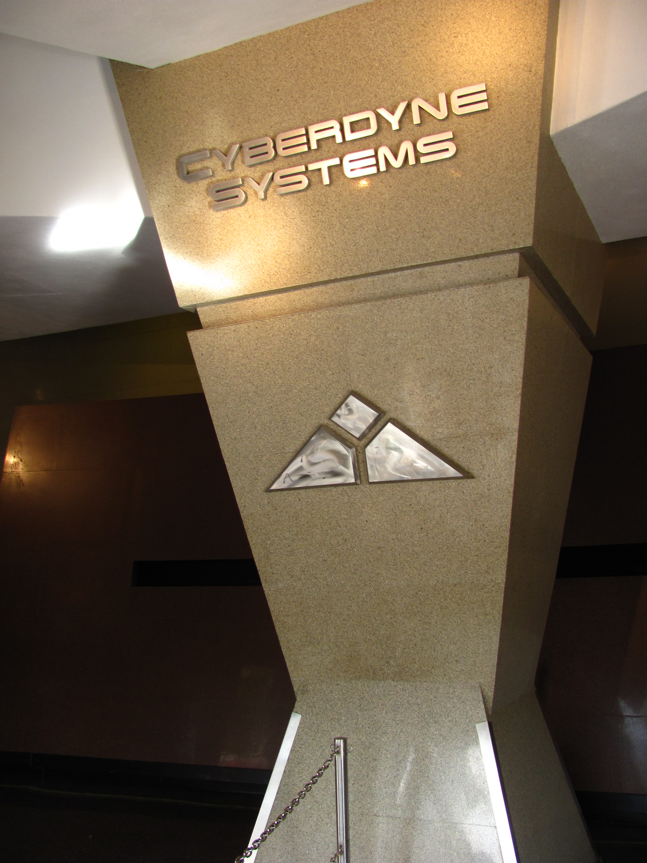 Terminator 2: 3-D